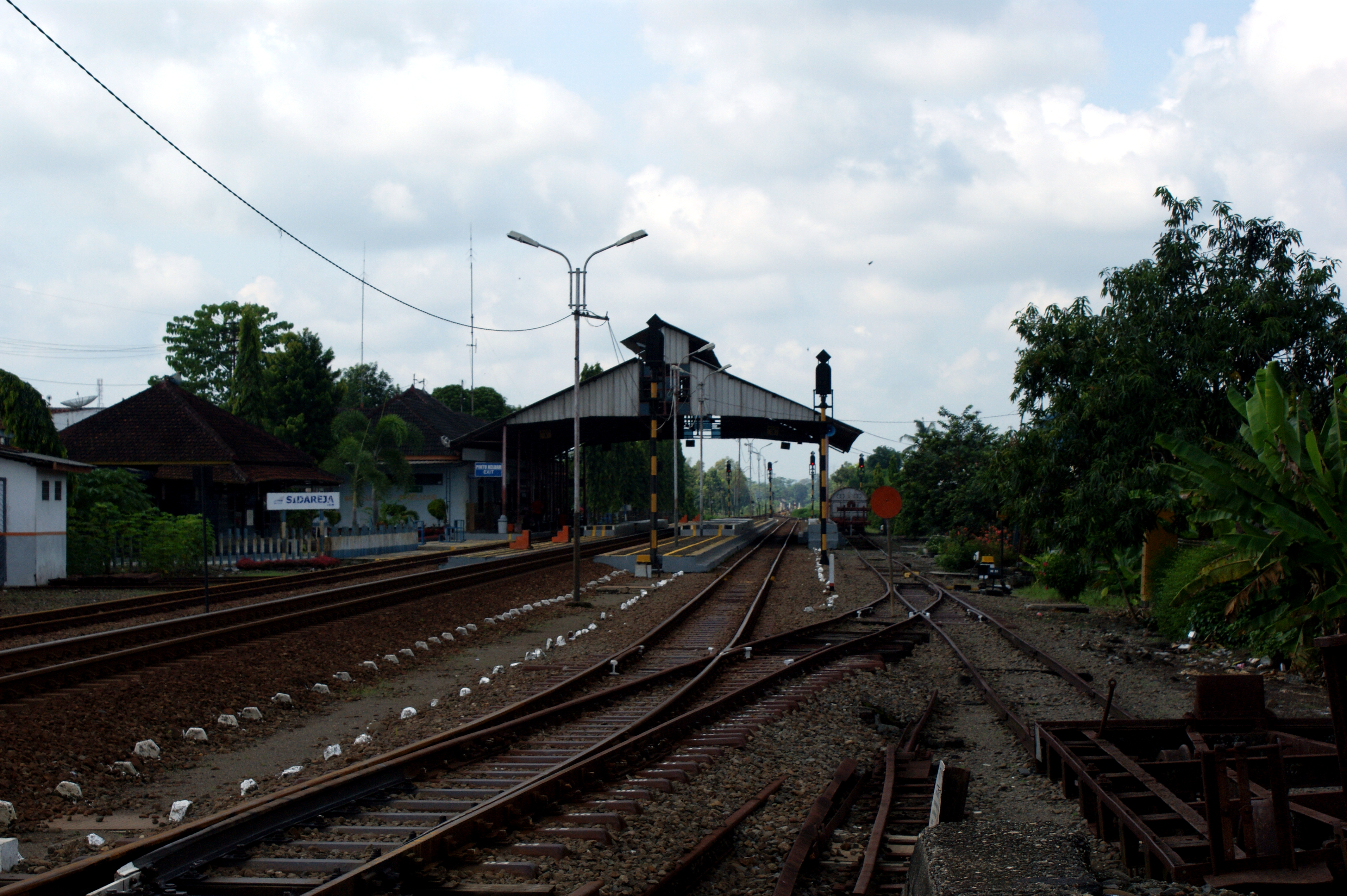 Station of Sidareja